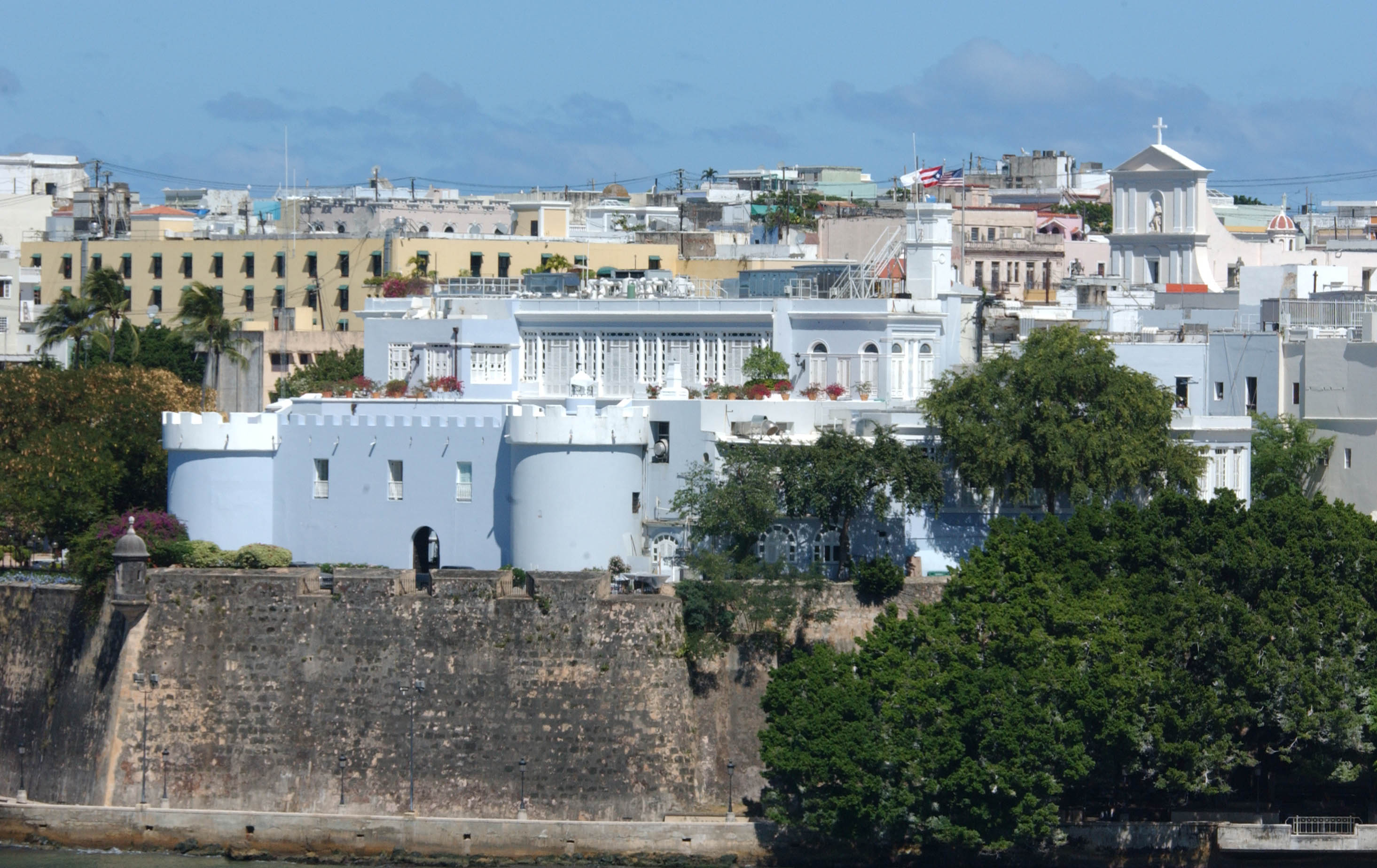 SAID TO BE THE OLDEST EXECUTIVE MANSION IN USE IN THE WESTERN HEMISPHERE. THIS PICTURE SHOWS A DIFFERENT VIEW AS TAKEN FROM A SHIP PASSING INTO SAN JUAN HARBOR